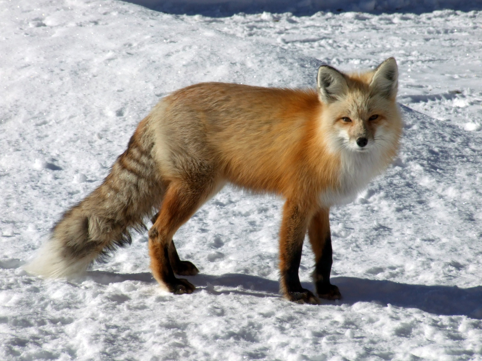 A North American red fox during winter in the Colorado Rocky Mountains